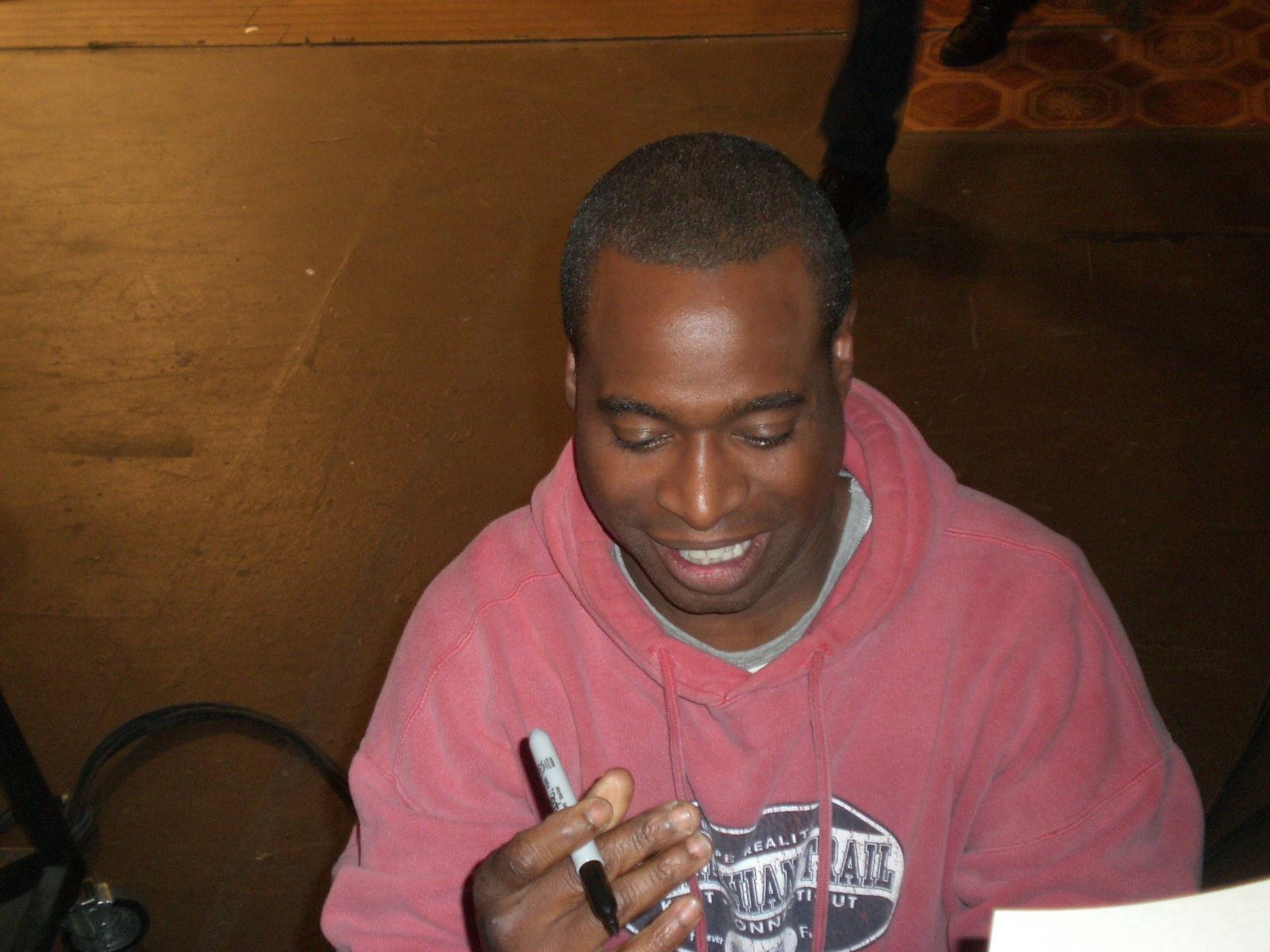 Phill Lewis-Mr. Moseby signing autographs